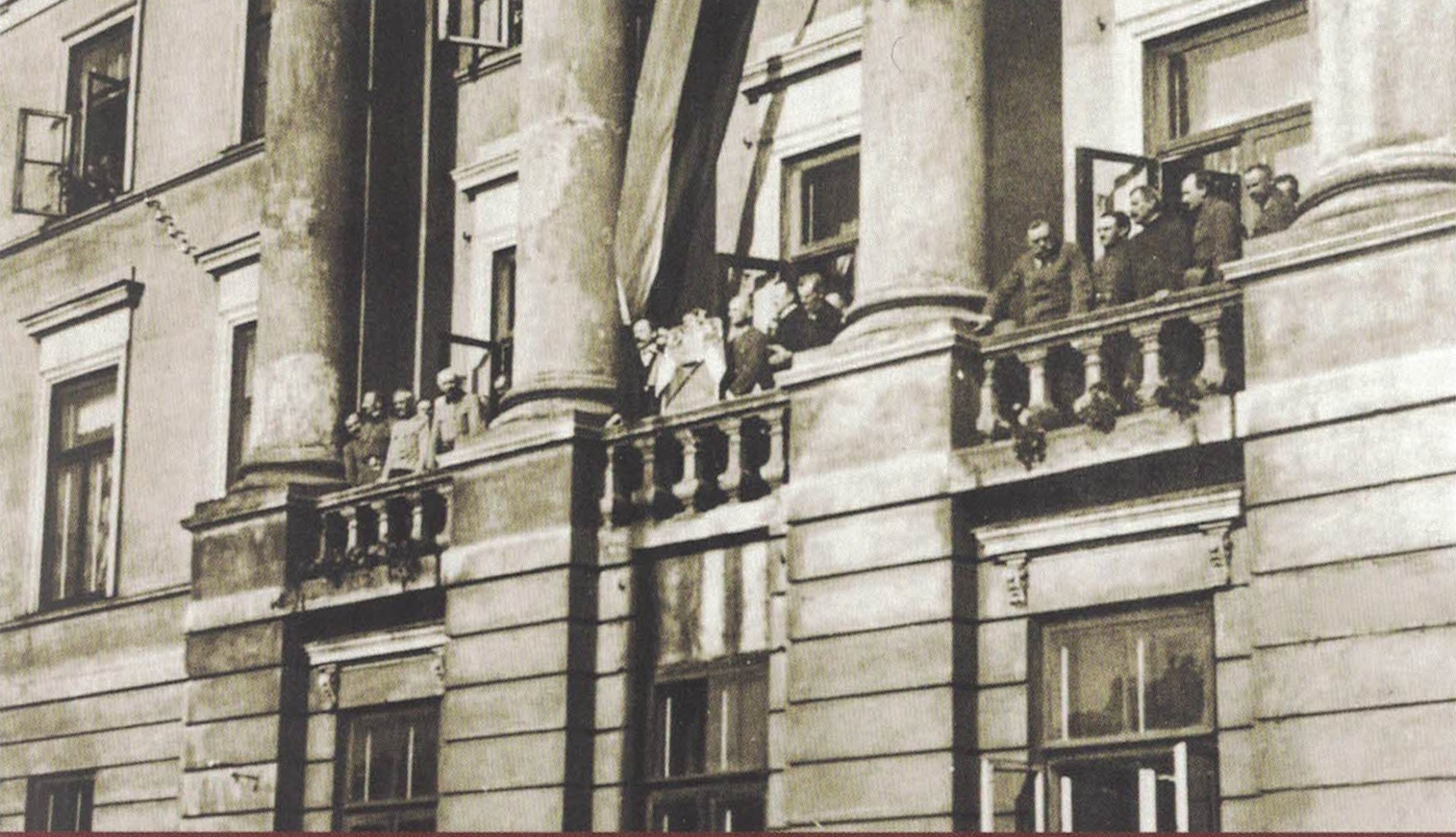 Seizing the power from the Austrian authorities by the members of so-called Committee of Five. Radom, 2nd November 1918.